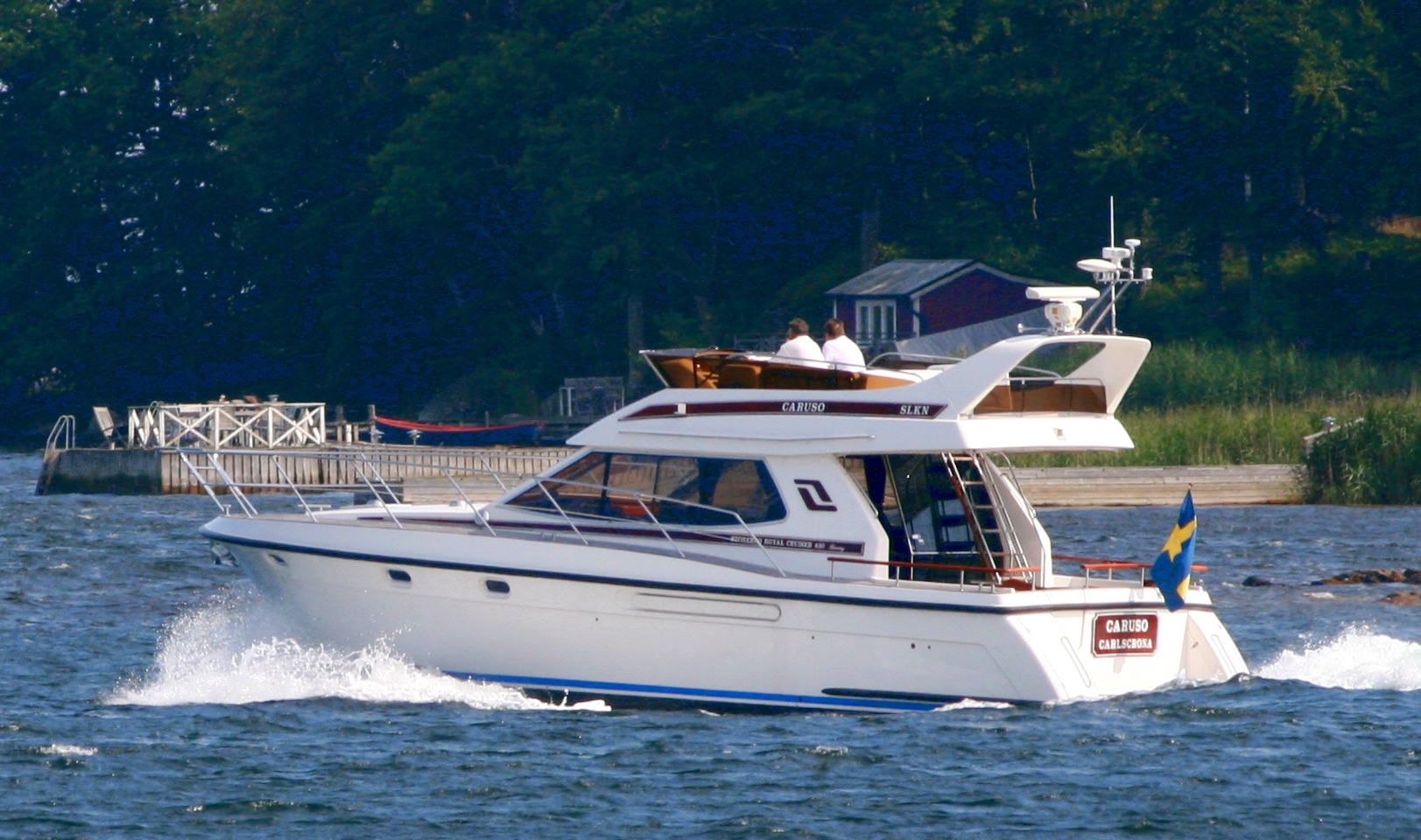 A Storebro Royal Cruiser